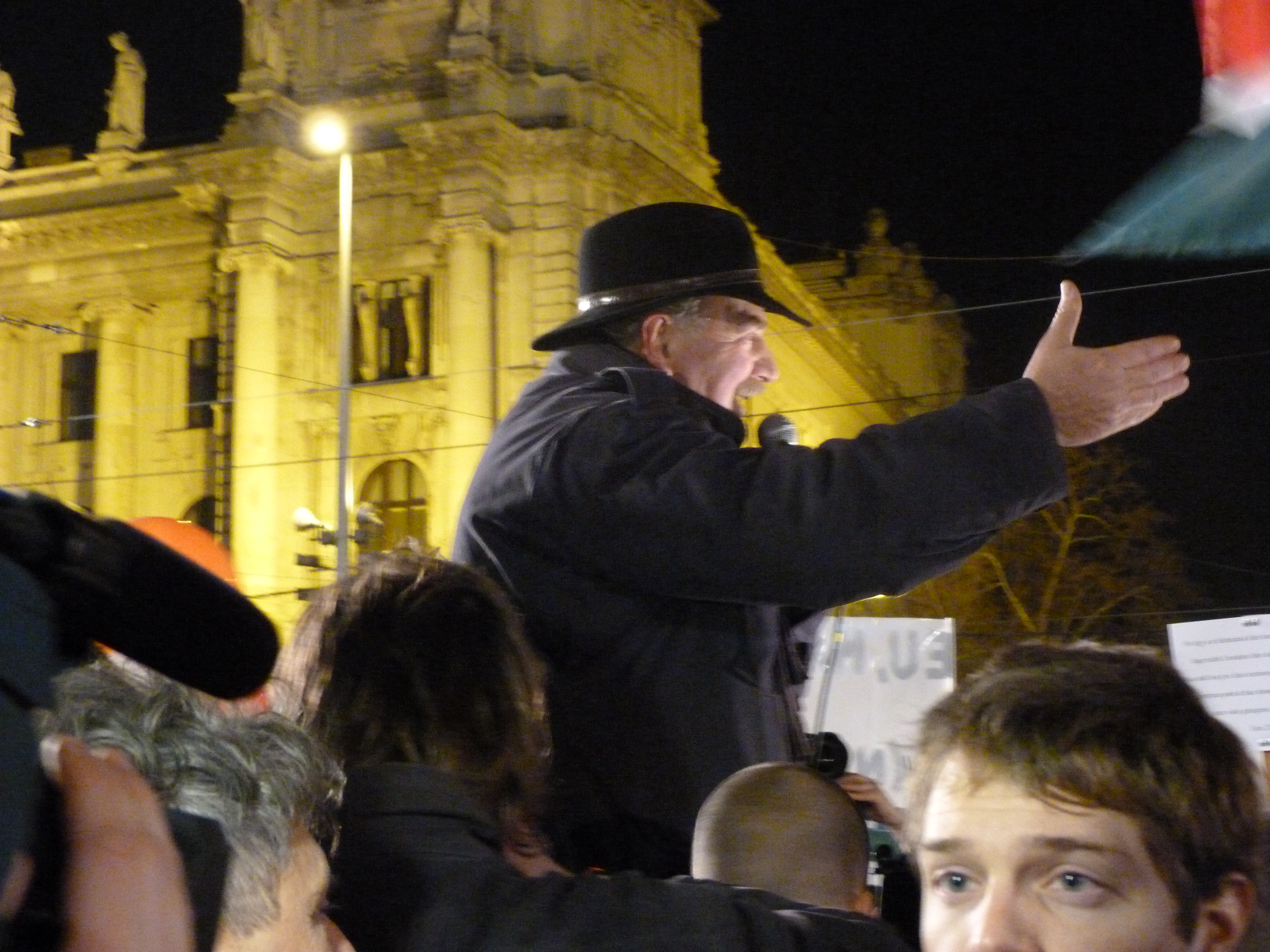 Live on the 21st of January, 2012. Budapest, Hungary. This photo was taken on the Kossuth square. The Peace March had arrived. Bencsik András on a box, speaking to the people. Behind Bencsik the Museum of Folk Arts (former Kúria) and the Alkotmány street. We, hungarian democrats, who trust in the democratic values of a civil society, the independance of our nation.( Peace March for Hungary 2012.01.21 (4) 1.55) Bayer Zsolt: We support this goverment. Our message to Europe: We will not be a colony ! Here are our polish friends: Long Live Poland ! ("Ország – világnak üzenjük mindannyian: Ez a kormány nincsen egyedül. (Viktor Viktor, Viktor). Mi már akkor Európába vágytunk, amikor onnan negyven évig ki voltunk szorítva. De üzenjük most, innen, ennek az Európának: soha nem leszünk gyarmat" - mondta Bayer Zsolt). ( Peace March for Hungary 2012.01.21 (4) 1.55) Published under Creative Commons in the Metapolisz DVD line.